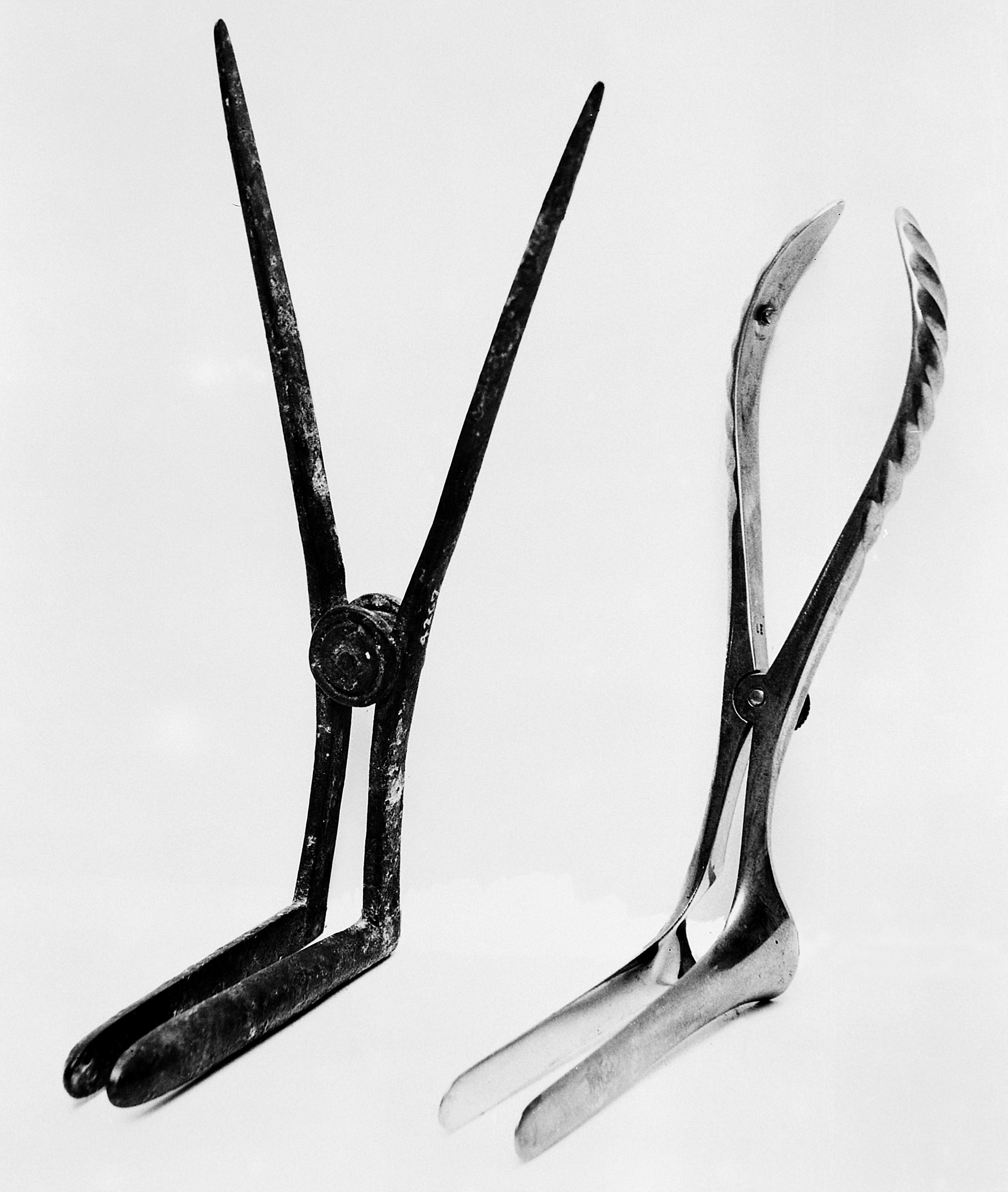 Examples of nasal speculum, both ancient and modern. Wellcome Images Keywords: instruments and apparatus; Surgical Instruments